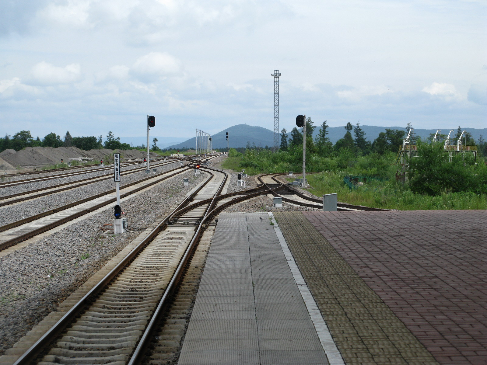 Baihe - Ji'an